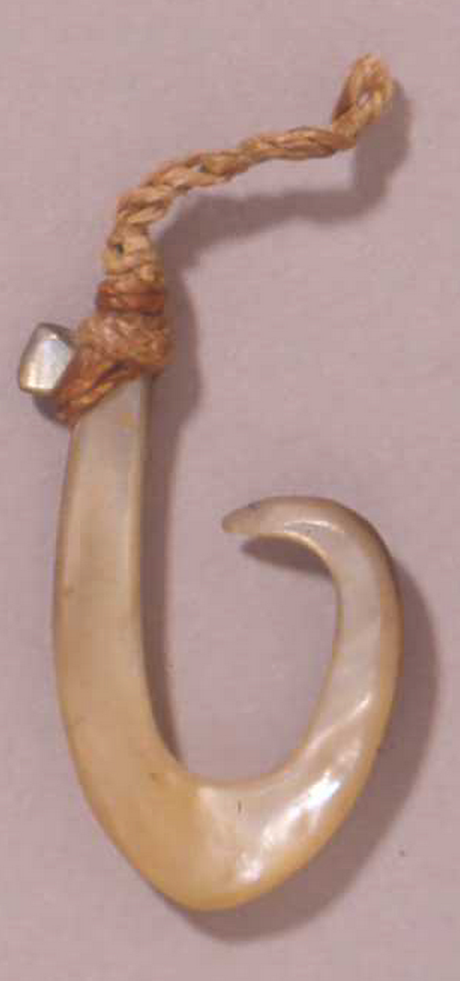 A cropped, rotated version of File:H000140- Fish hook.jpg